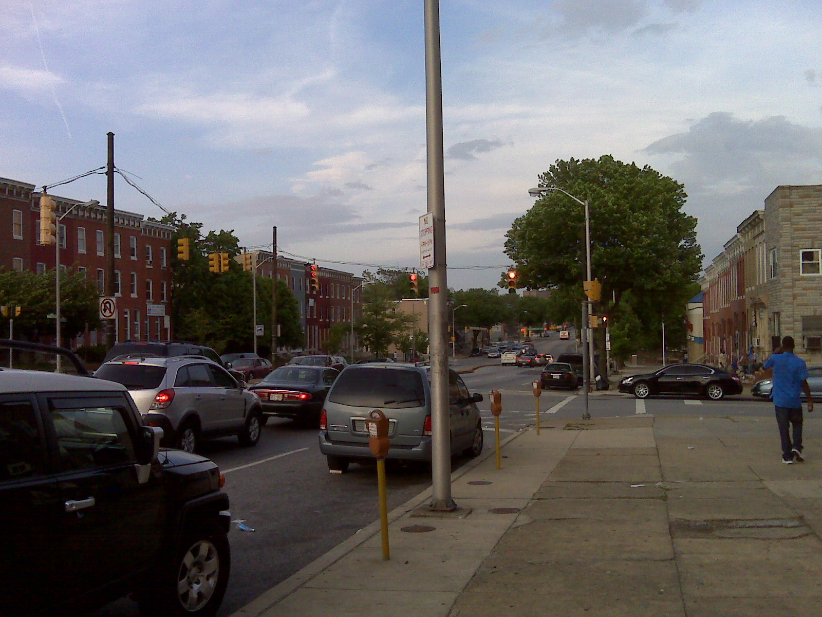 A picture of North Avenue in Baltimore as it intersects Greenmount Avenue in the background.